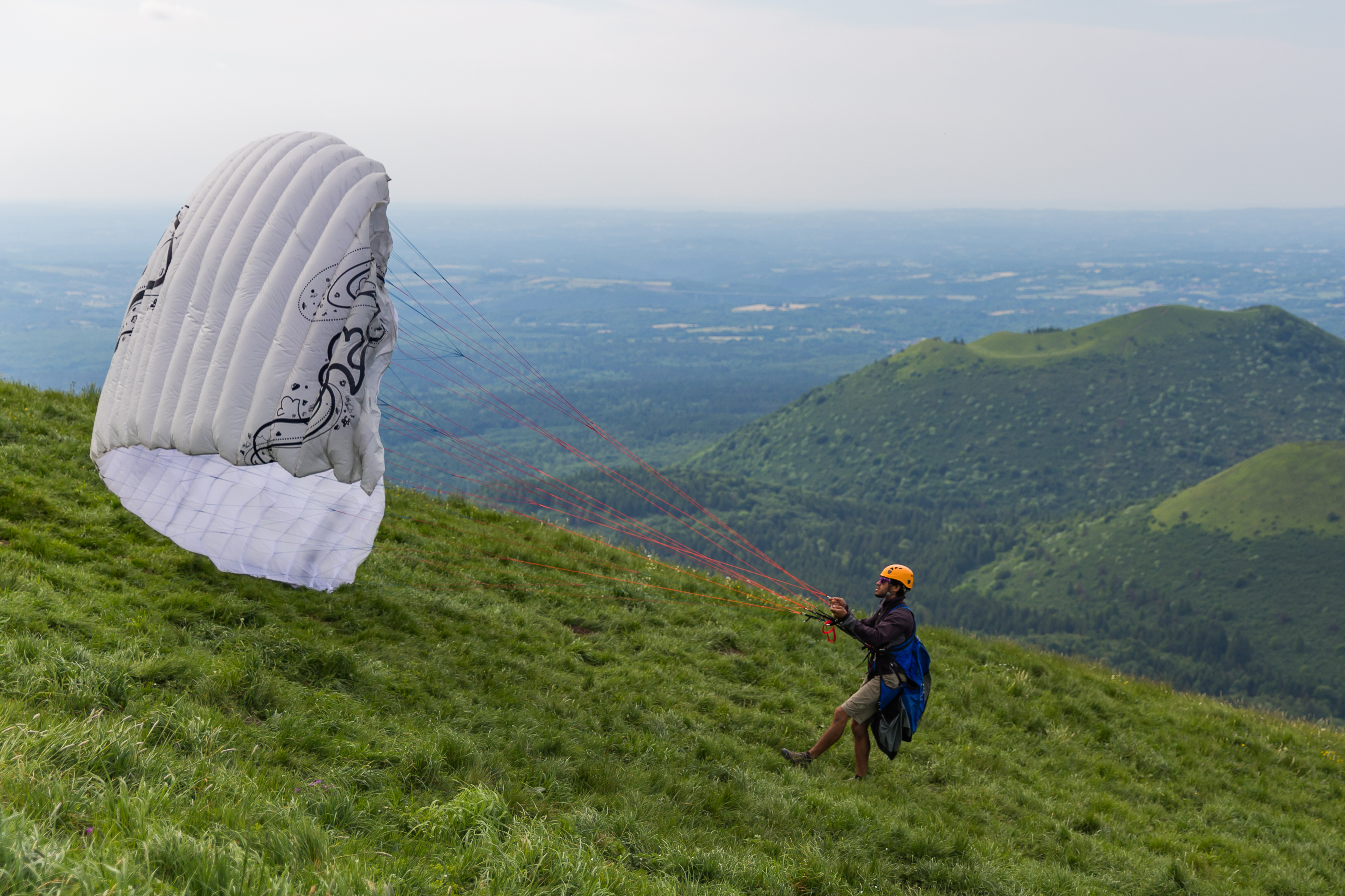 Paraglider during take-off on the puy de dôme, France.